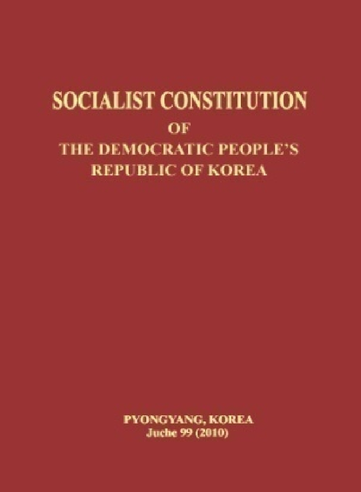 Cover page of an English-language translation of the constitution of North Korea.